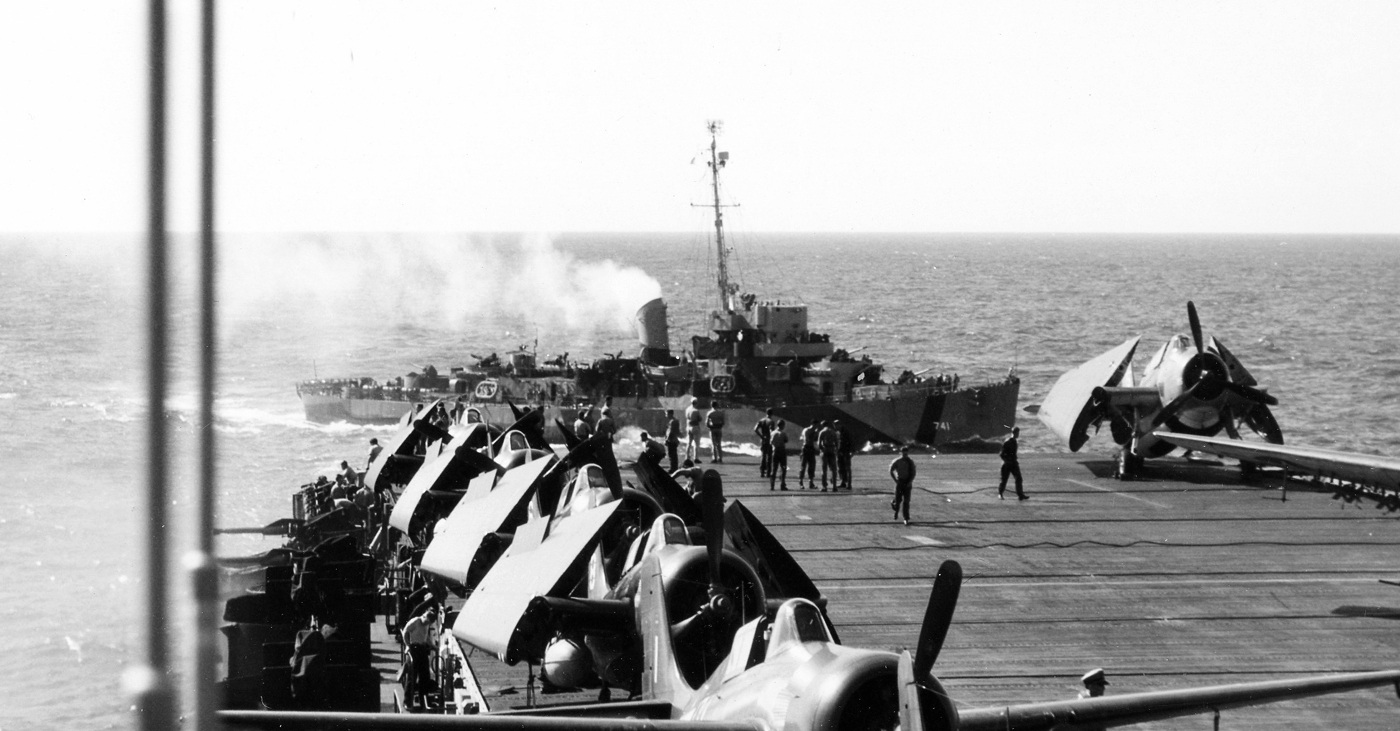 The U.S. Navy destroyer escort USS Weaver (DE-741) passing aft of the escort carrier USS Sargent Bay (CVE-83) on 6 January 1945, after delivering mail. She is painted in Camouflage Measure 31, Design 10D. Visible on the flight deck of Sargent Bay are five General Motors FM-1 Wildcats and a Grummen TBF Avenger of Composite Squadron 79 (VC-79).